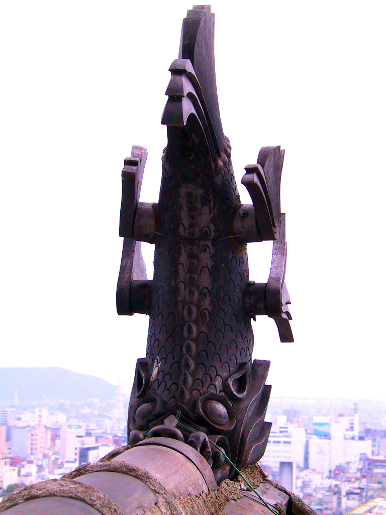 A gargoyle on the roof of Himeji Castle, Himeji, Hyogo, Japan.